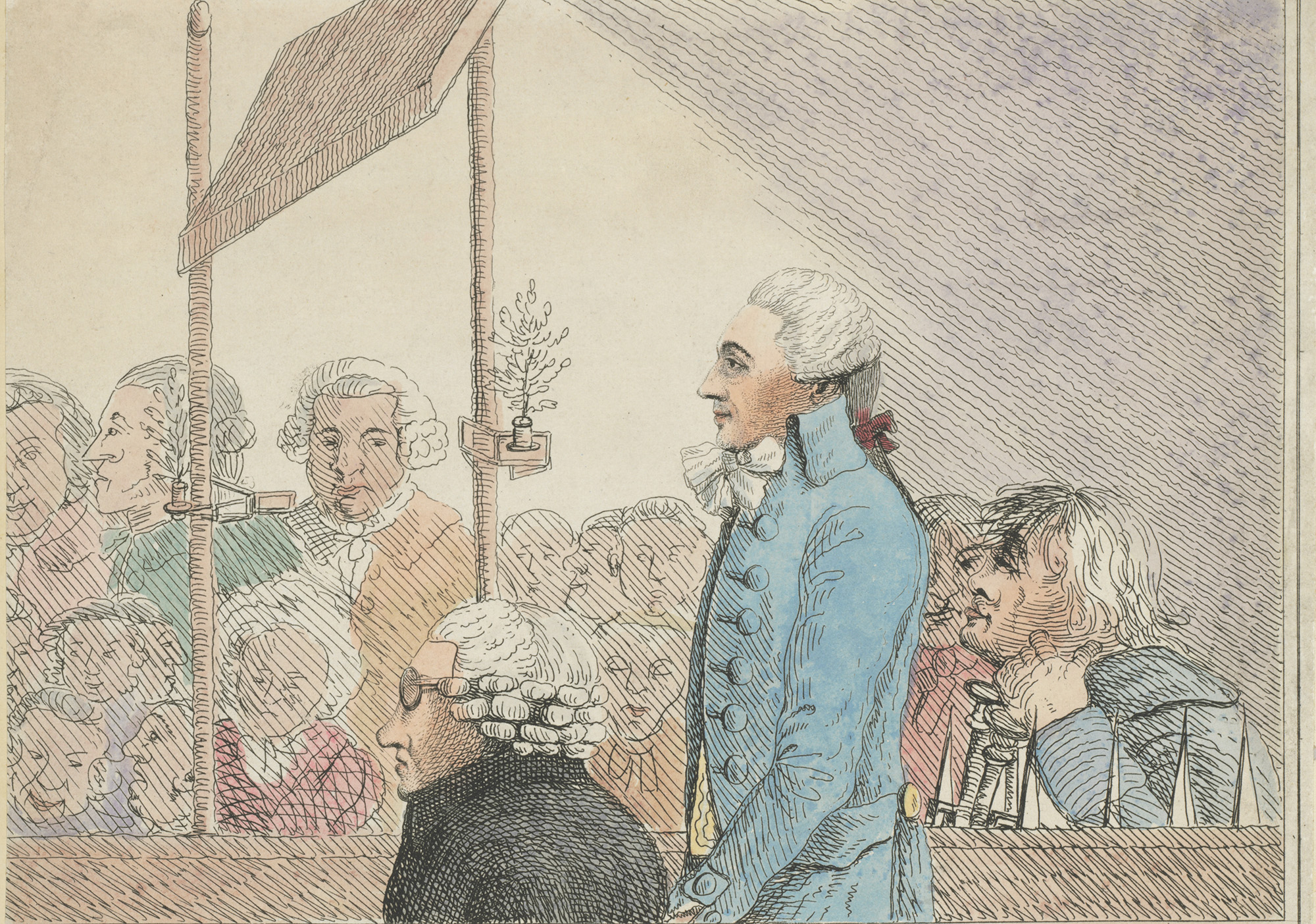 The convict George Barrington being tried at The Old Bailey, 17 September 1790, from Early Australian Portraits 1778-1908, 79 etchings, mezzotints, lithographs and half-tone prints, State Library of New South Wales DL PX 157